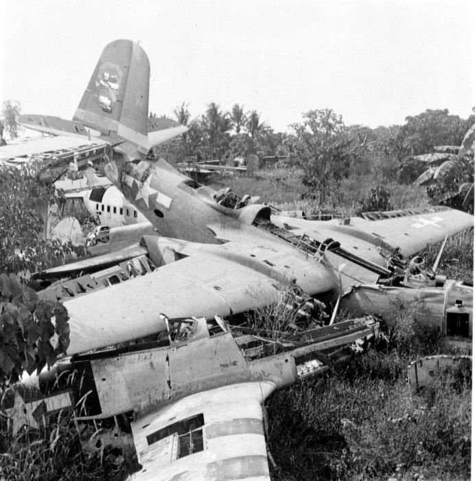 Repro negative. American airplane wrecks